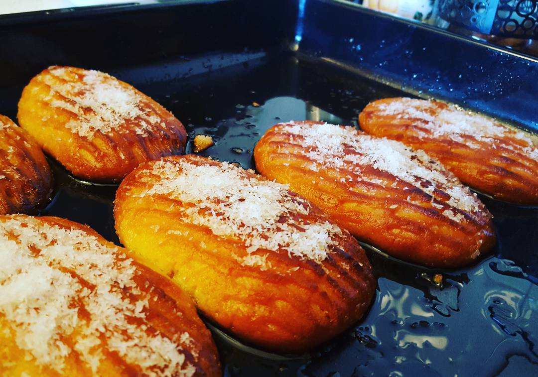 Traditional macedonian desert.